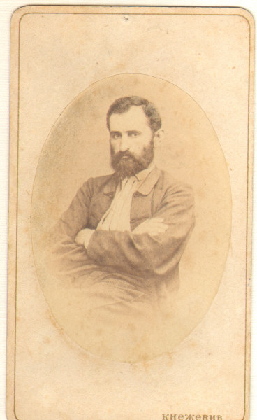 Photograph of Serbian painter Novak Radonić (1860) Srpski (latinica): Fotografija slikara Novaka Radonića (1860)